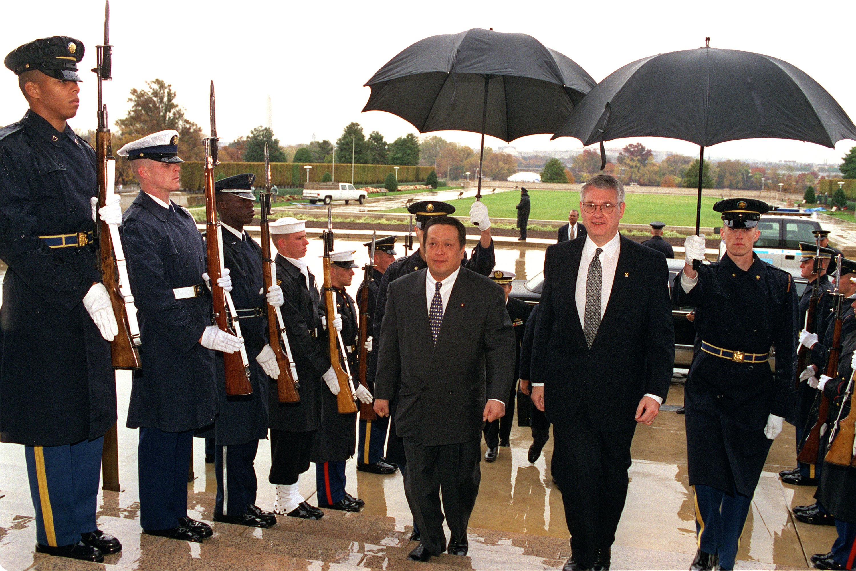 Yasukazu Hamada, Parliamentary Vice Minister of Defense, met John Hamre, Deputy Secretary of Defense, at the Pentagon in Arlington County, Virginia State on November 3, 1998.